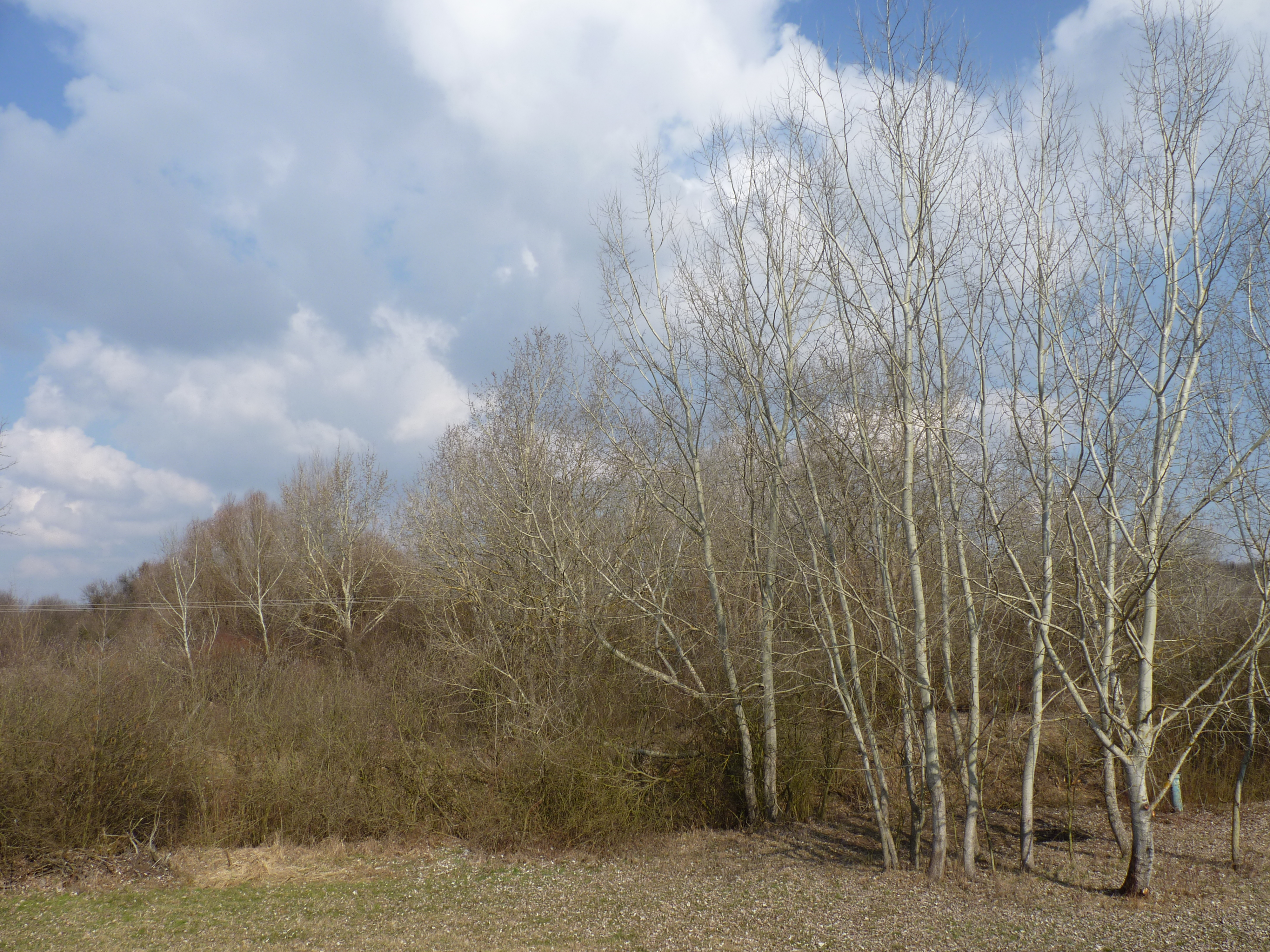 Betlém (natural monument), Brno-Country District, South Moravian Region, Czech Republic Project: Chráněná území